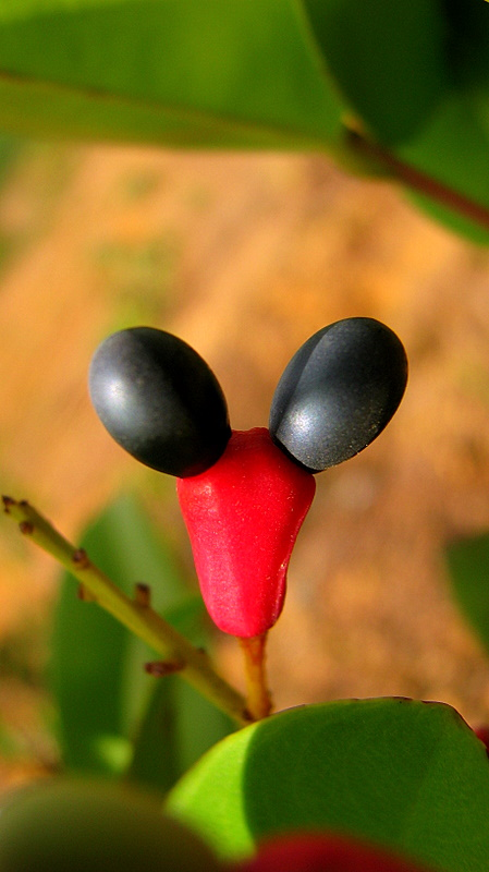 Mature fruit on red-colored carpophore.